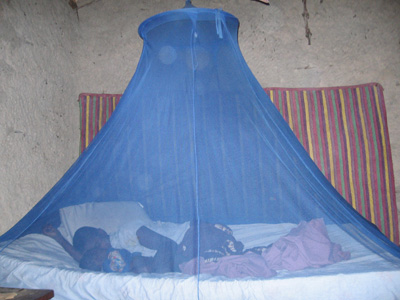 A mother and her child test out their Insecticide treated bed net in Rufiji District, Tanzania.